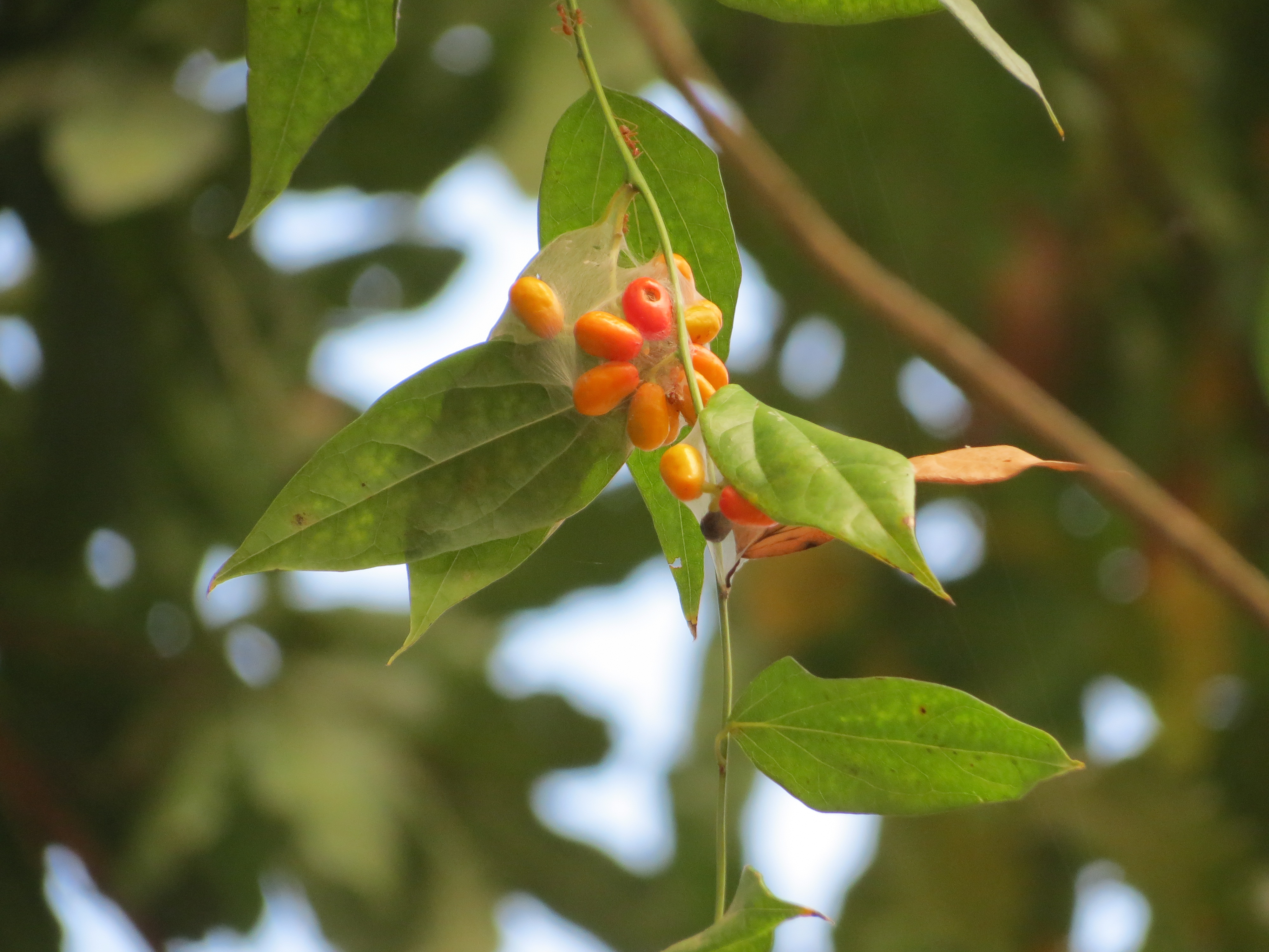 Tiliacora acuminata in Nalliserry temple in Elambulassery, palakkad district.